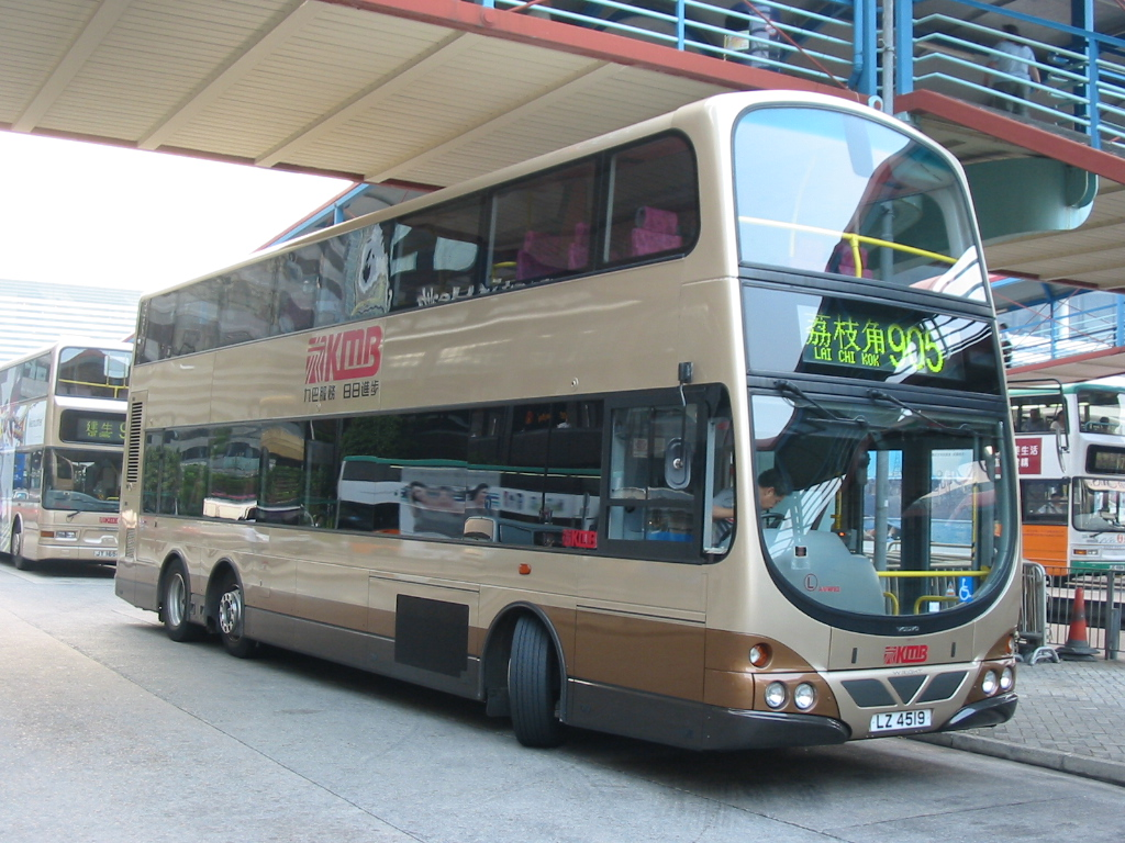 九巴配Wright車身的B10TL巴士，由Wrightbus拍攝。 A KMB B10TL double-decker with Wright bodywork. Photo taken by Wrightbus.